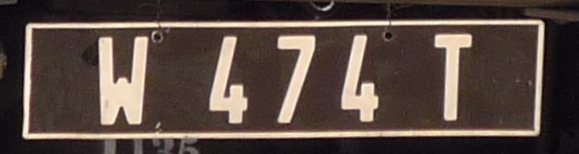 Temporary license plate specifically for dealers and garages, registered in Antananarivo